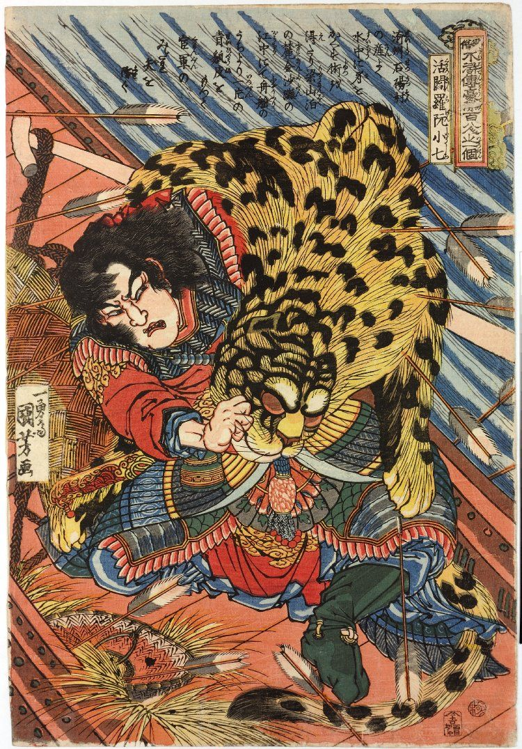 Ruan Xiaoqi (阮小七), in a boat, uses a large tiger-skin to protect himself from a hail of arrows.